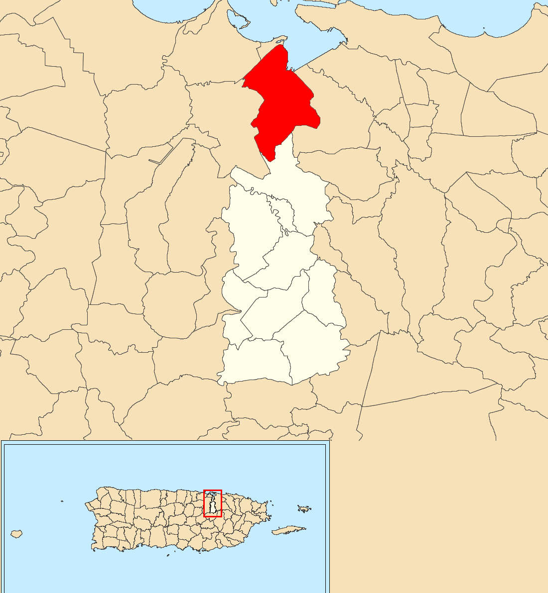 Pueblo Viejo, Guaynabo, Puerto Rico locator map